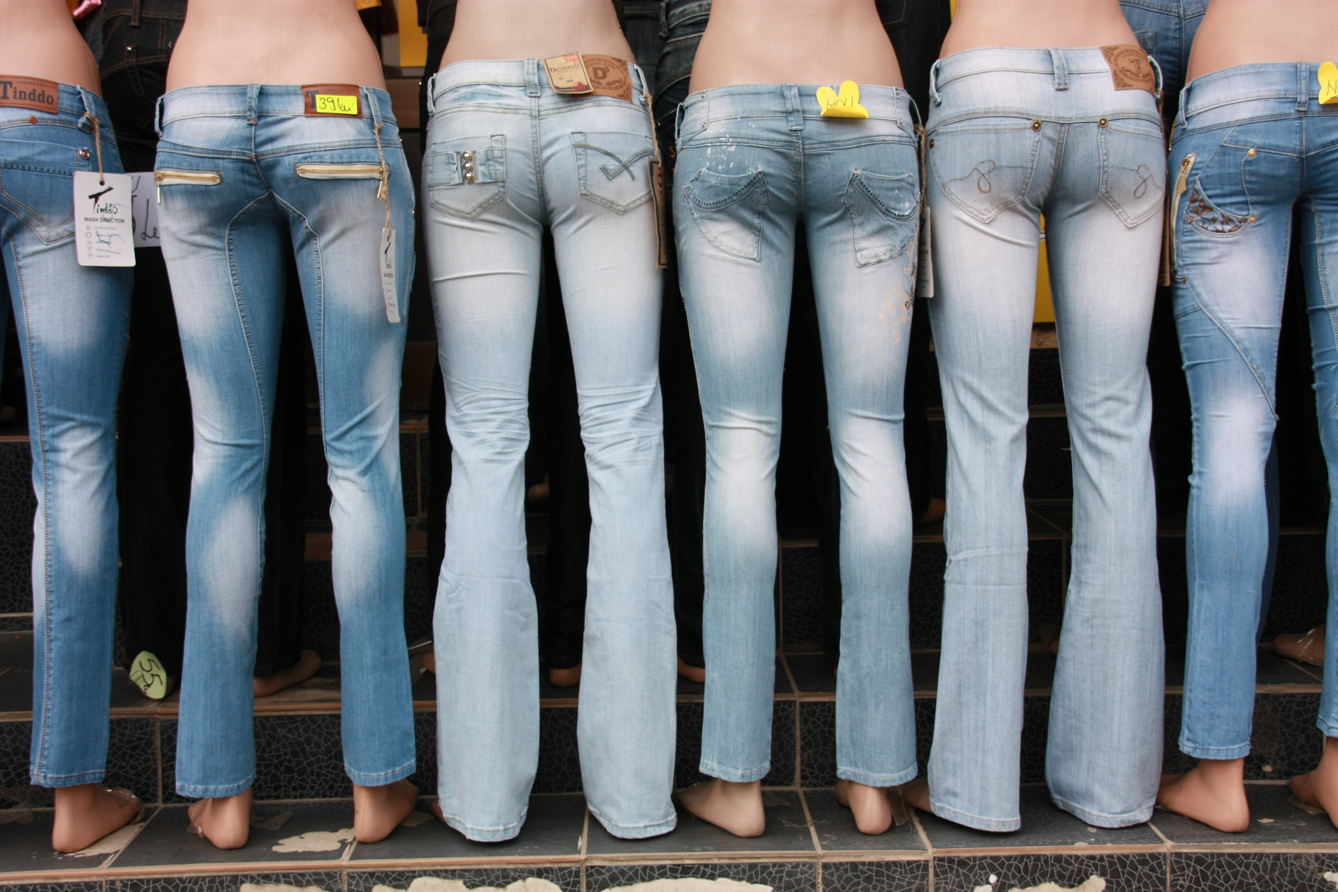 Mannequins wearing jeans in Sânnicolau Mare, Romania